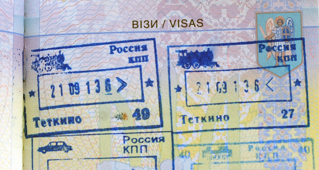 Tyotkino border guard service stamp